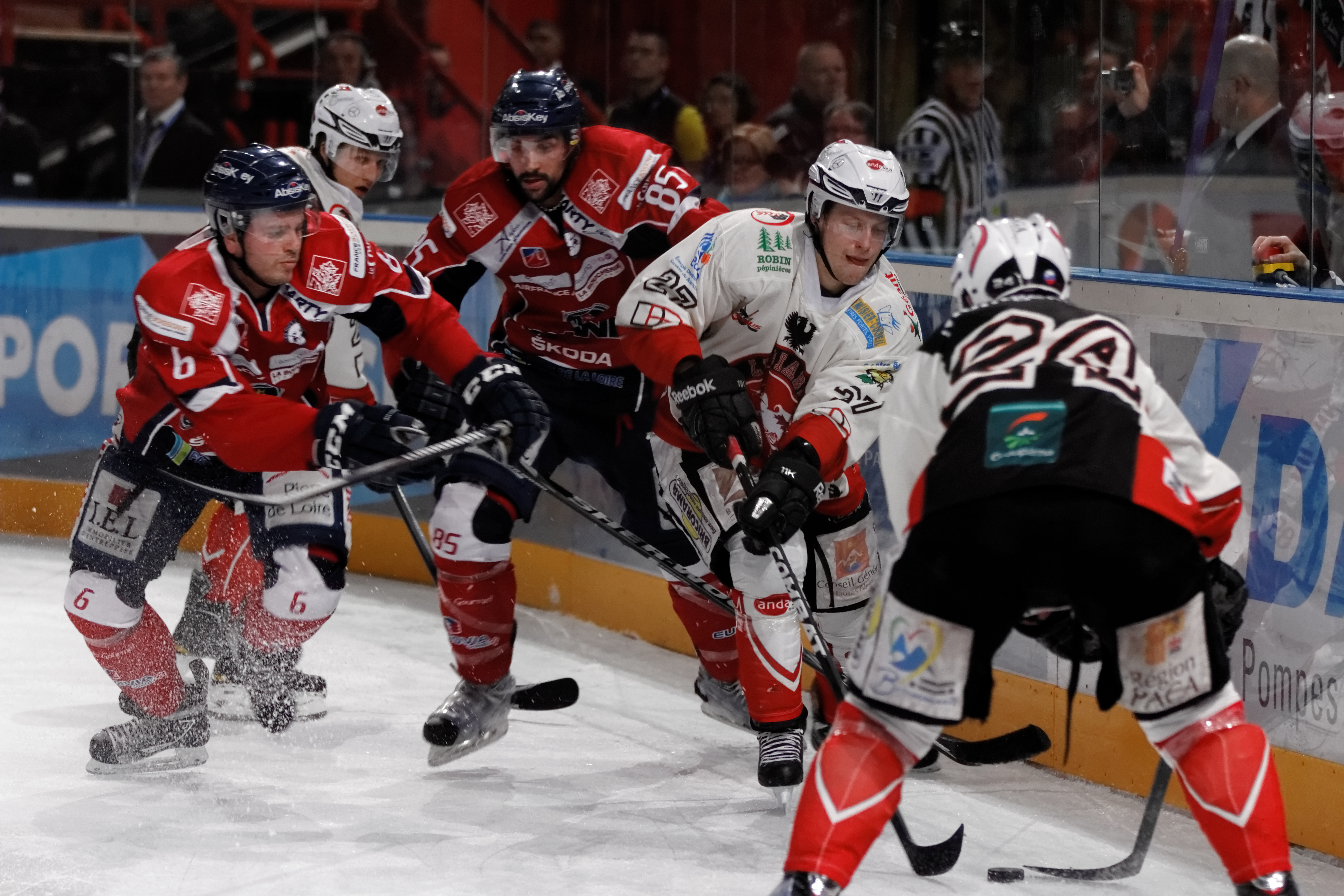 Final of the Ice Hockey French Cup 2013.